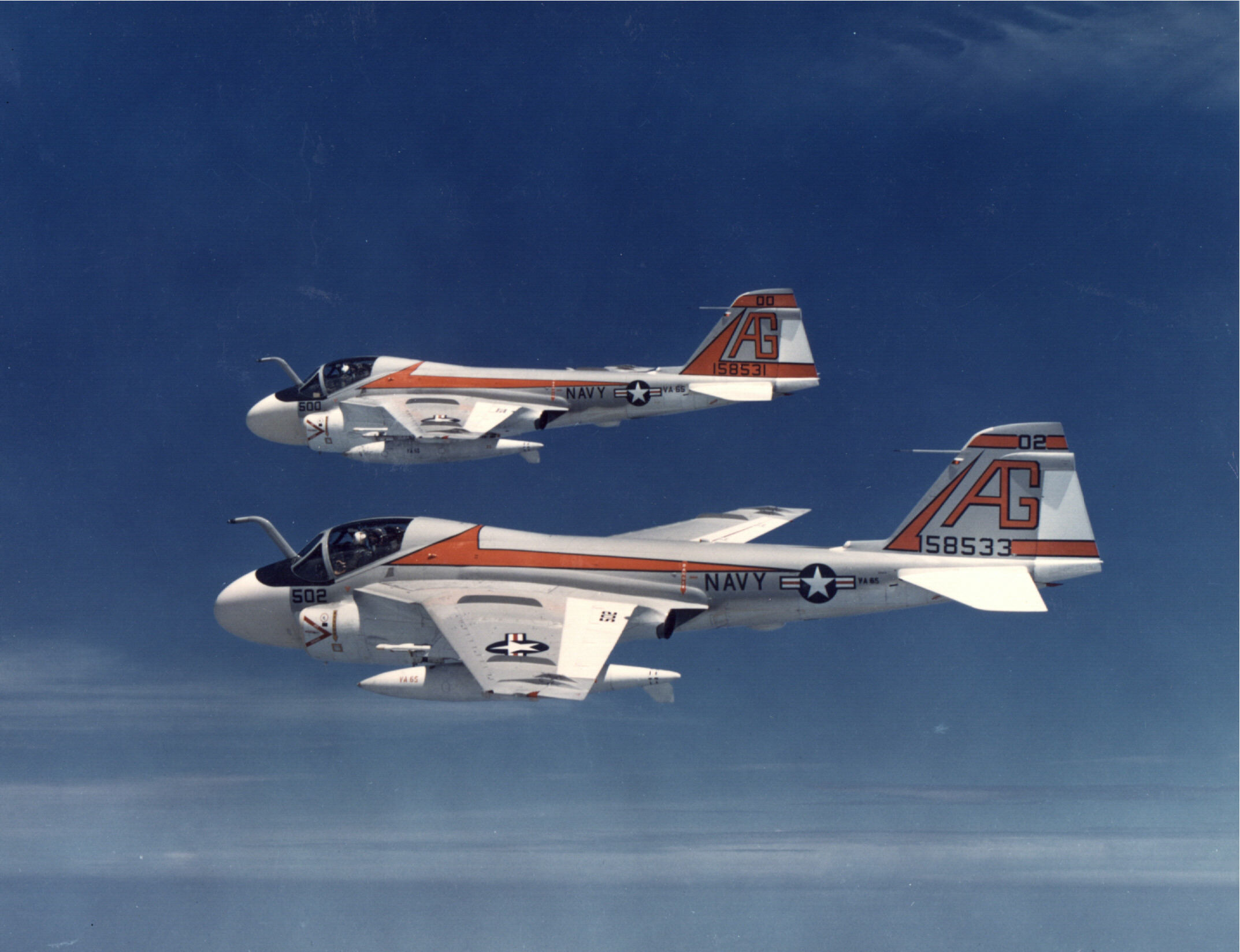 Two U.S. Navy Grumman A-6E Intruder (BuNo 158531, 158533) from Attack Squadron VA-65 Tigers in flight in August 1972. VA-65 was assigend to Carrier Air Wing 7 (CVW-7) aboard the aircraft carrier USS Independence (CVA-62) and had transitioned from the A-6A to the A-6E variant after returning from a deployment in 1972.